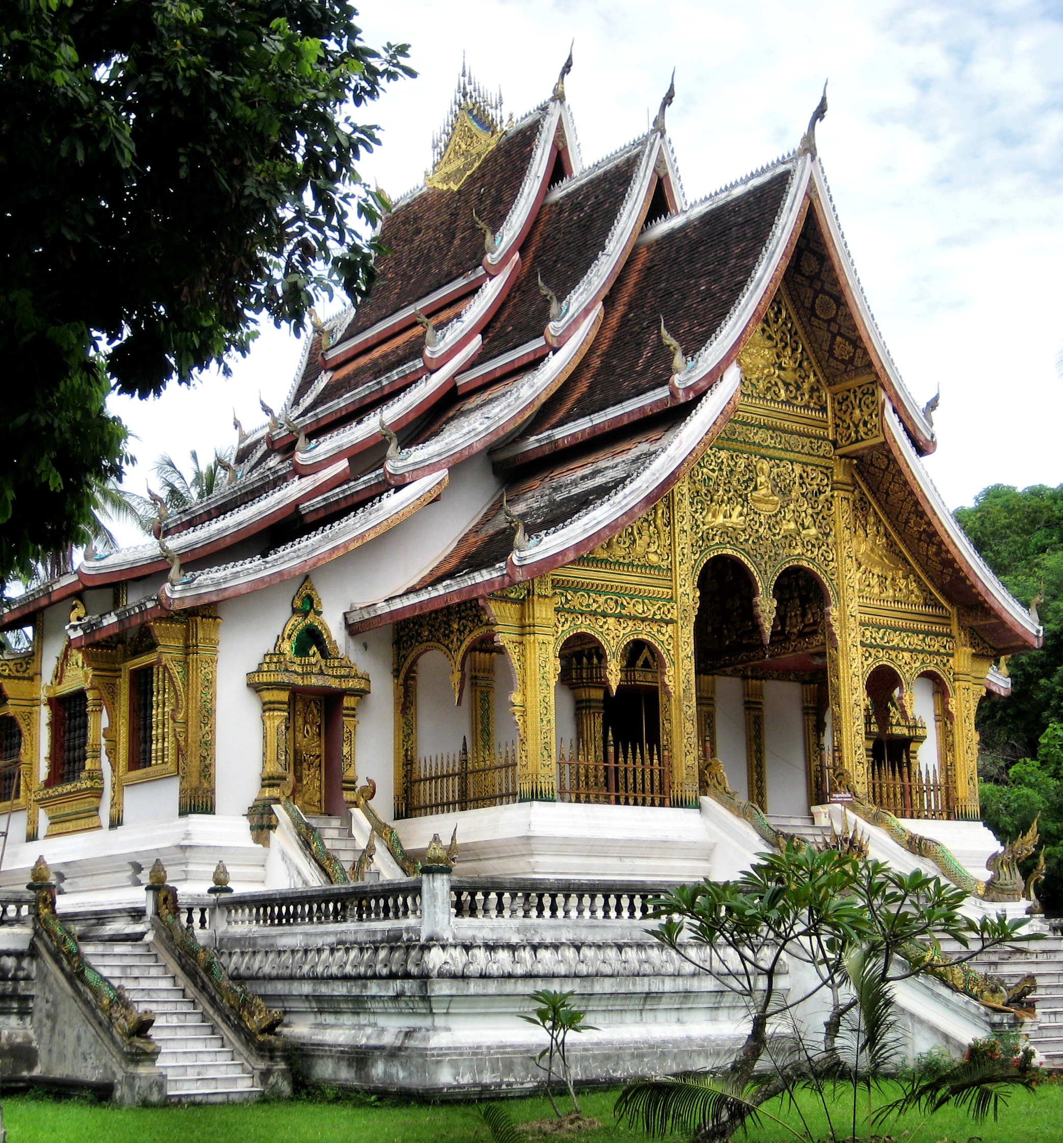 LPB Temple